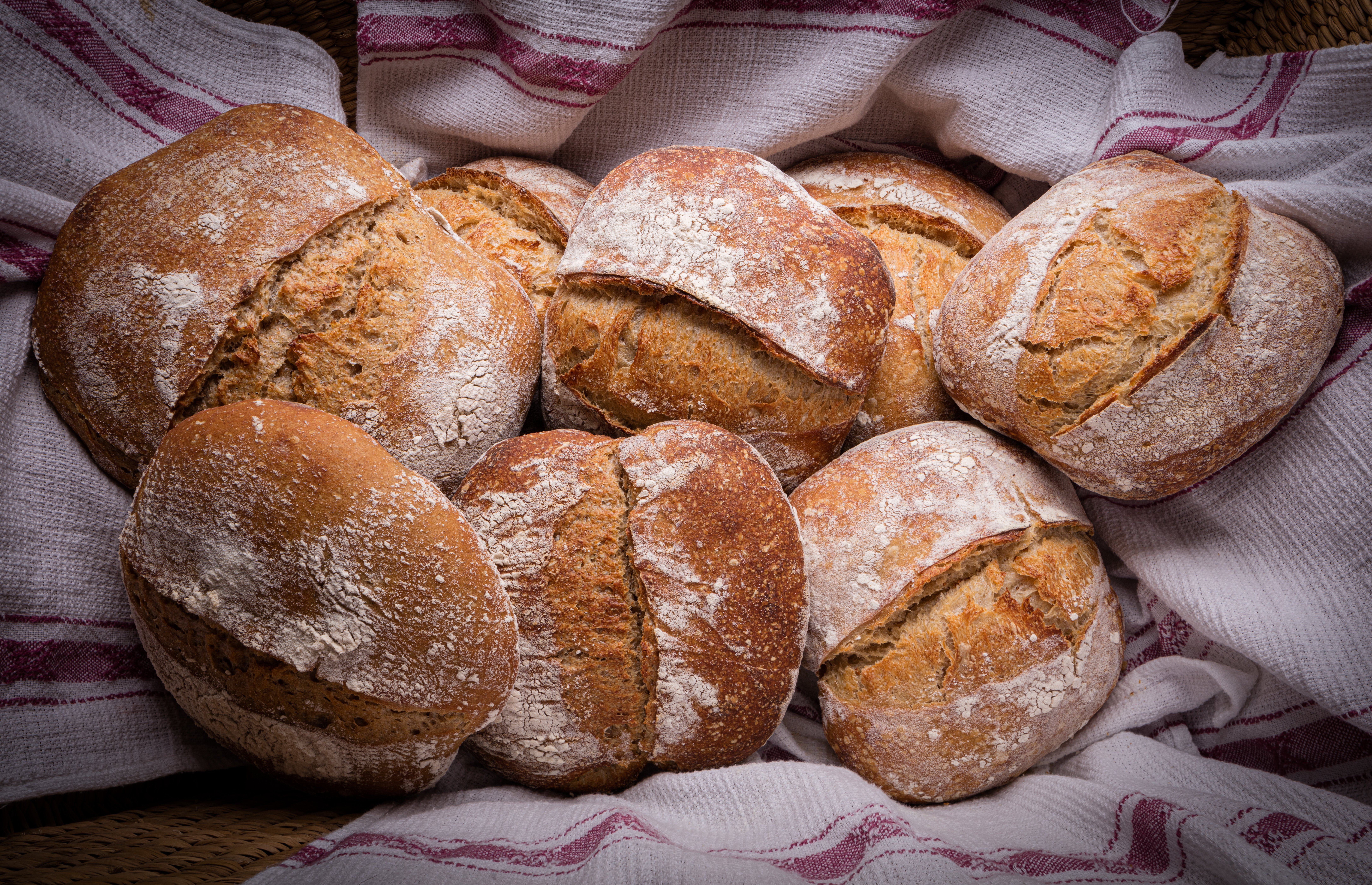 Home made sourdough bread.